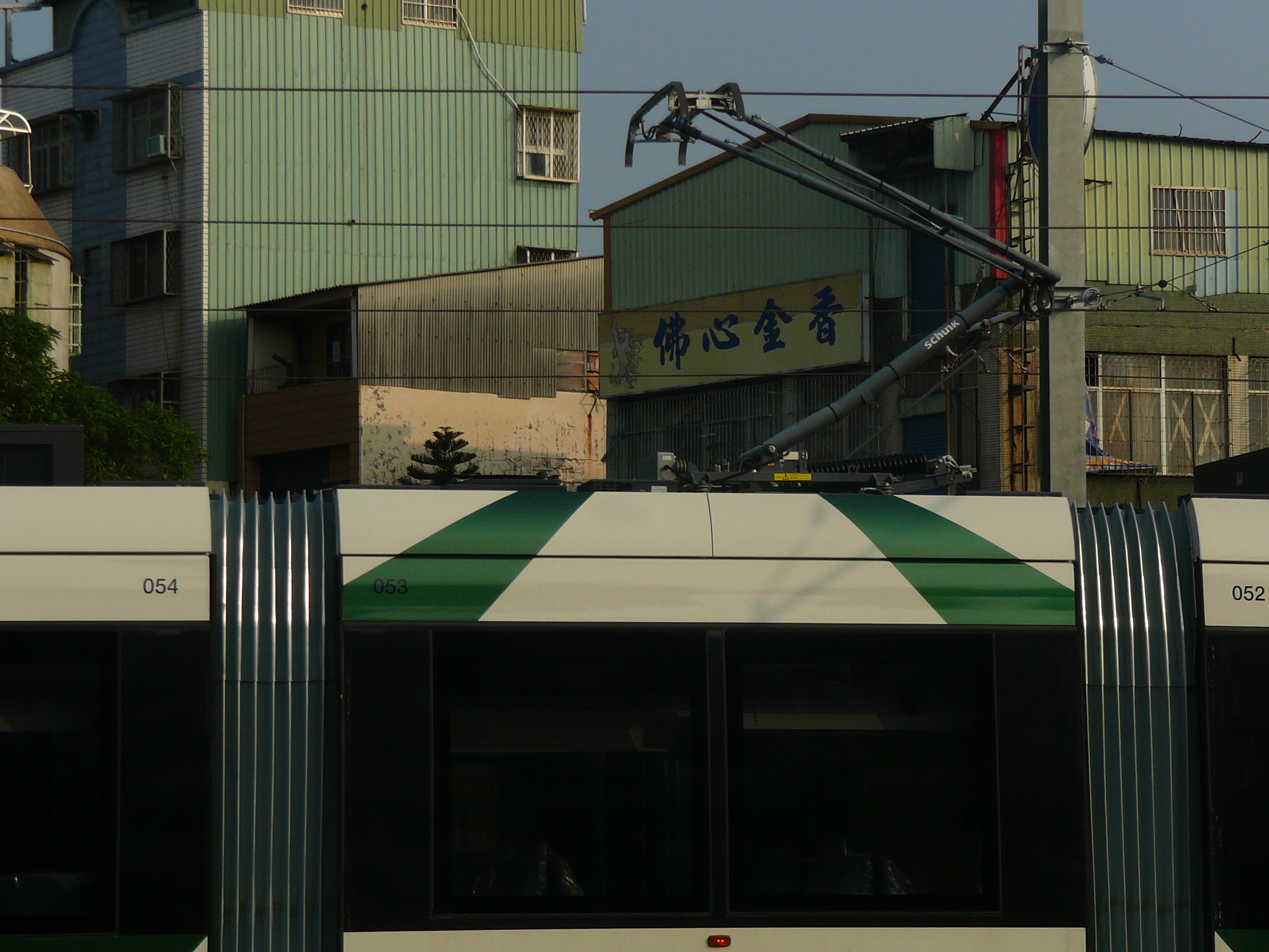 Kaohsiung LRT Cianjhen Depot